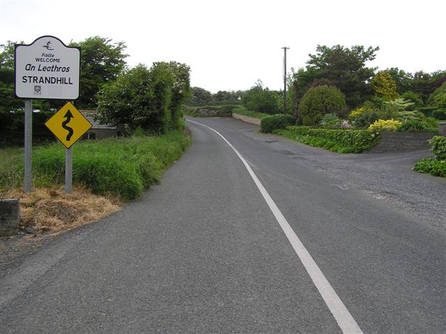 Road at Carrowdough Heading north, away towards Strandhill